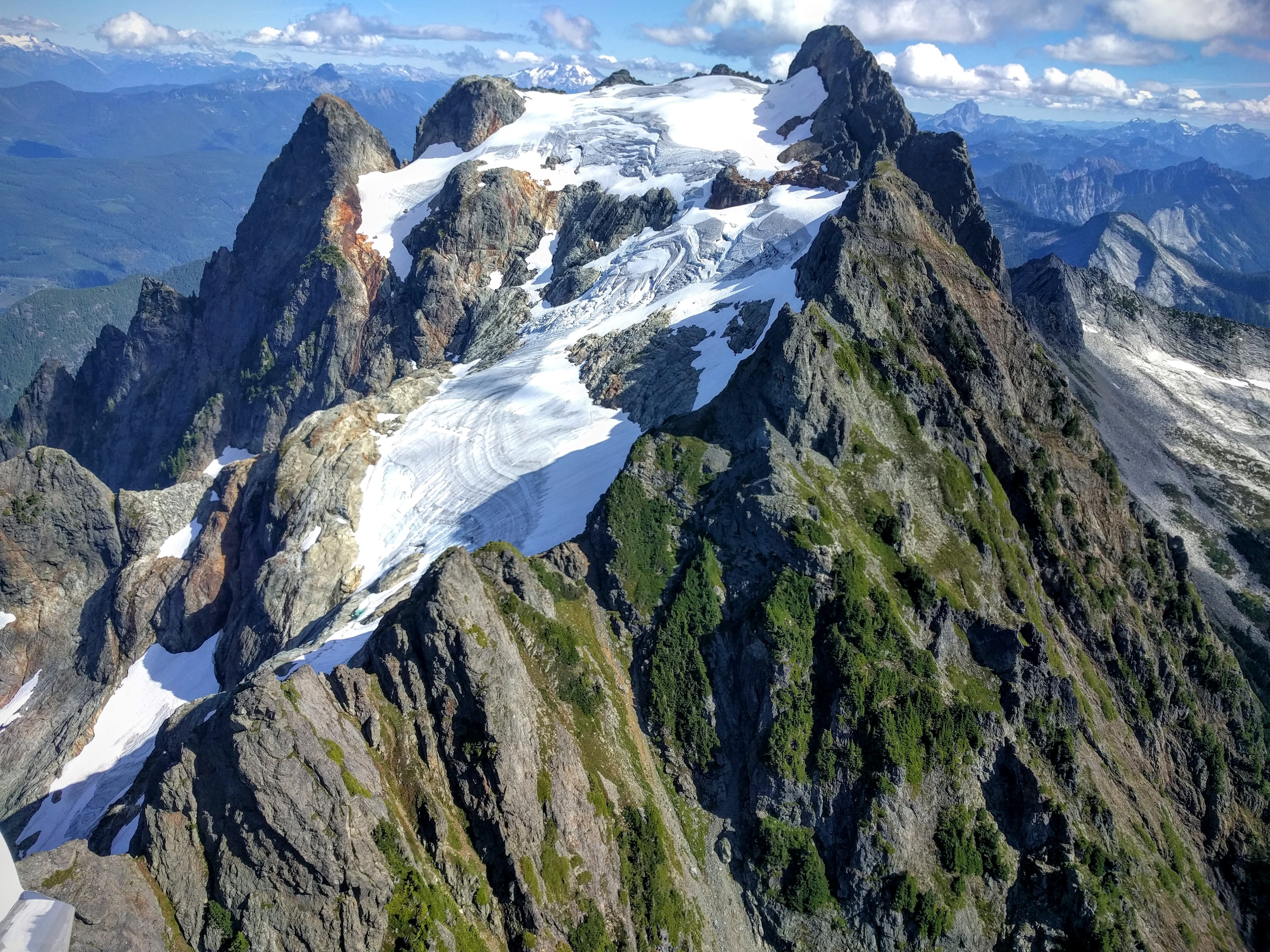 The Whitehorse Glacier seen from the West.